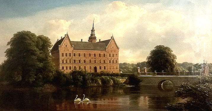 Vemmetofte in Denmark